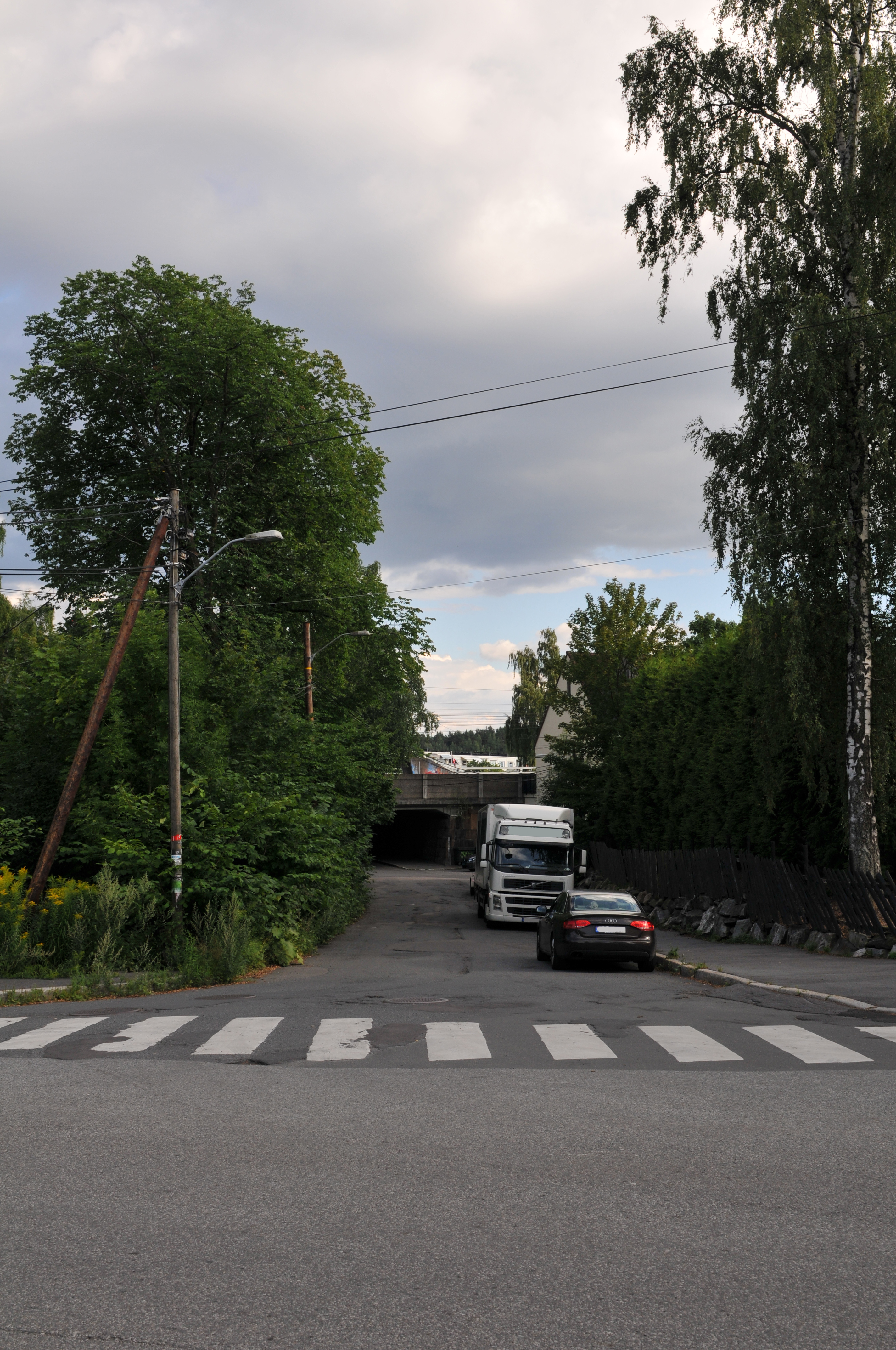 Bestumveien towards the beginning of the road from intersection Sigurd Iversens vei